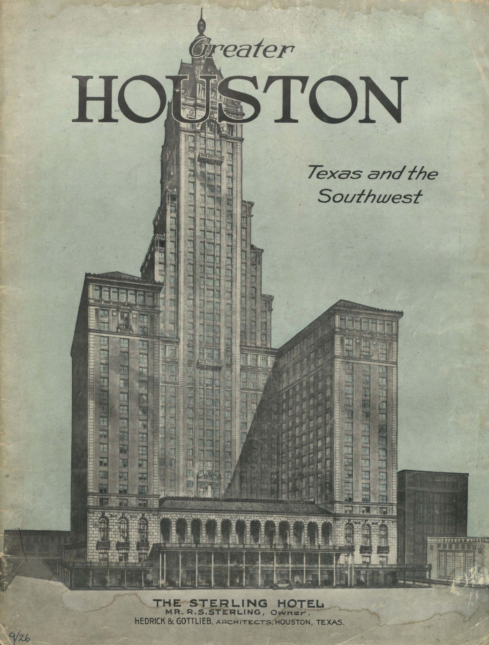 48 page magazine put out by the Greater Houston Publishing Co. on September, 1926 to promote the civic growth of Houston. Includes illustrations of various buildings of note and articles promoting Houston as a center of shipping, oil industry, and commerce.